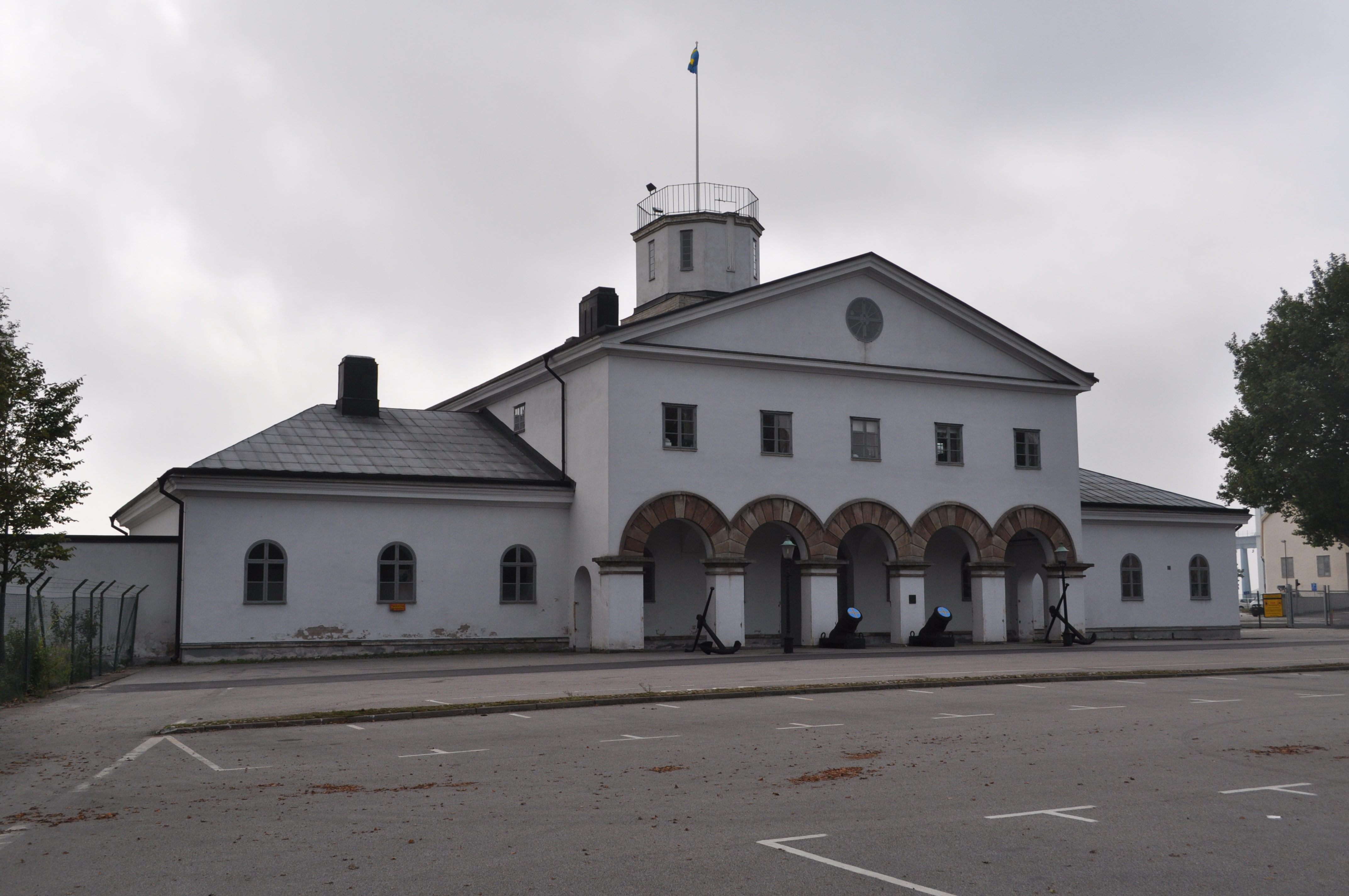 Naval port of karlskrona - Högvakten